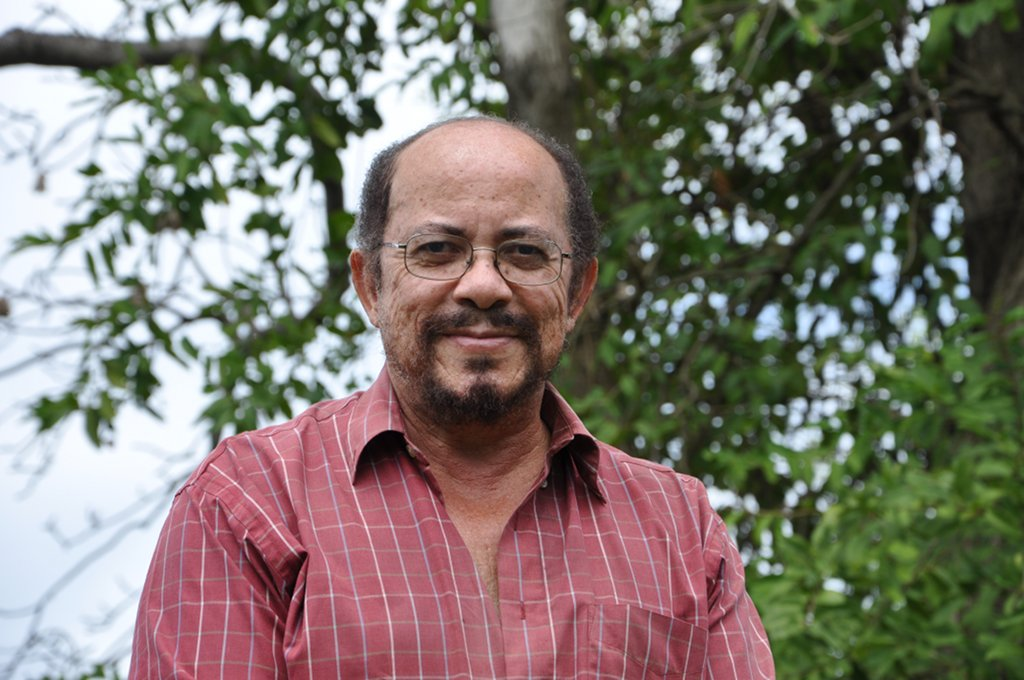 Writer Raphaël Confiant